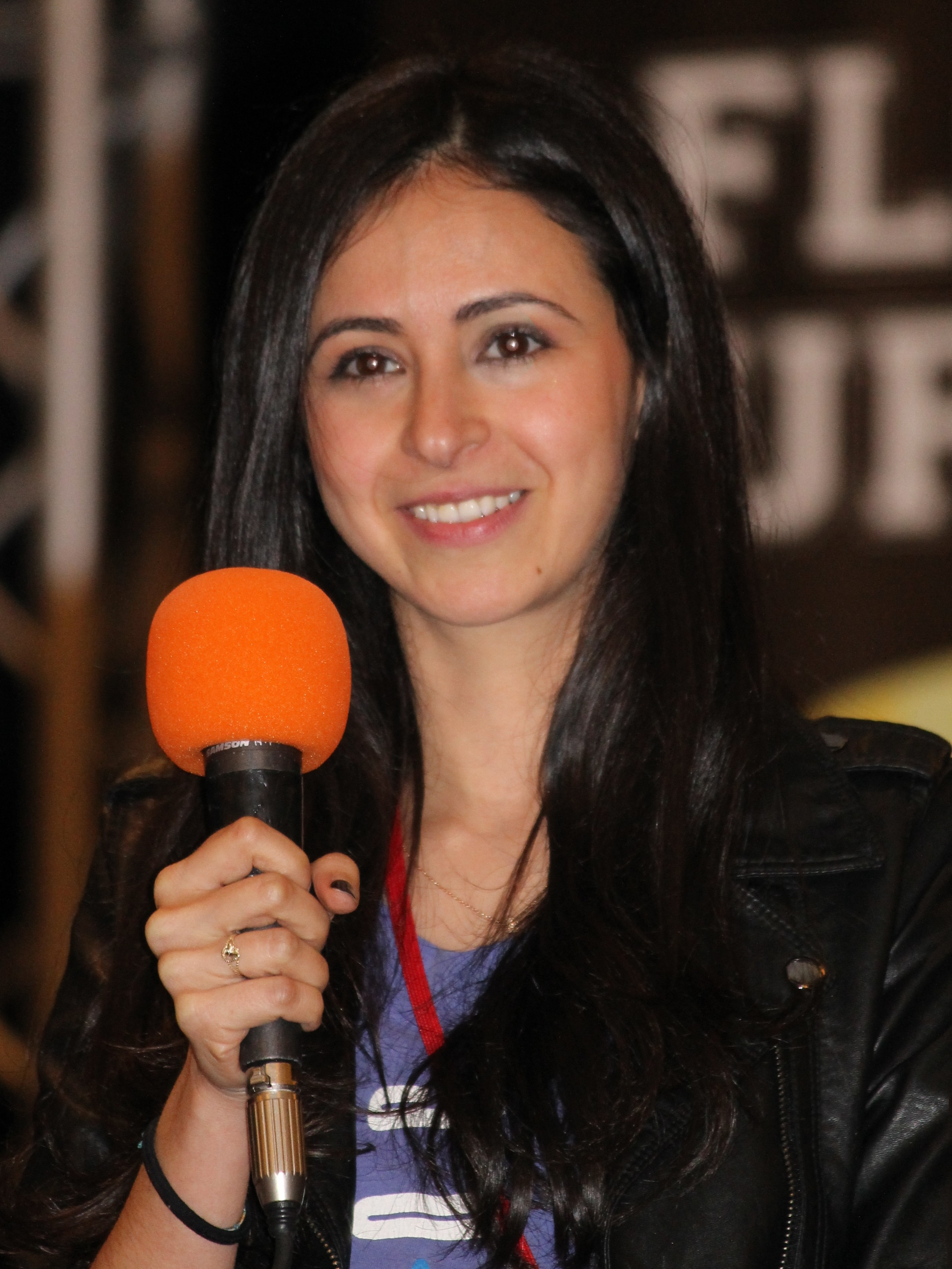 Actress Jessica DiCicco at a convention.